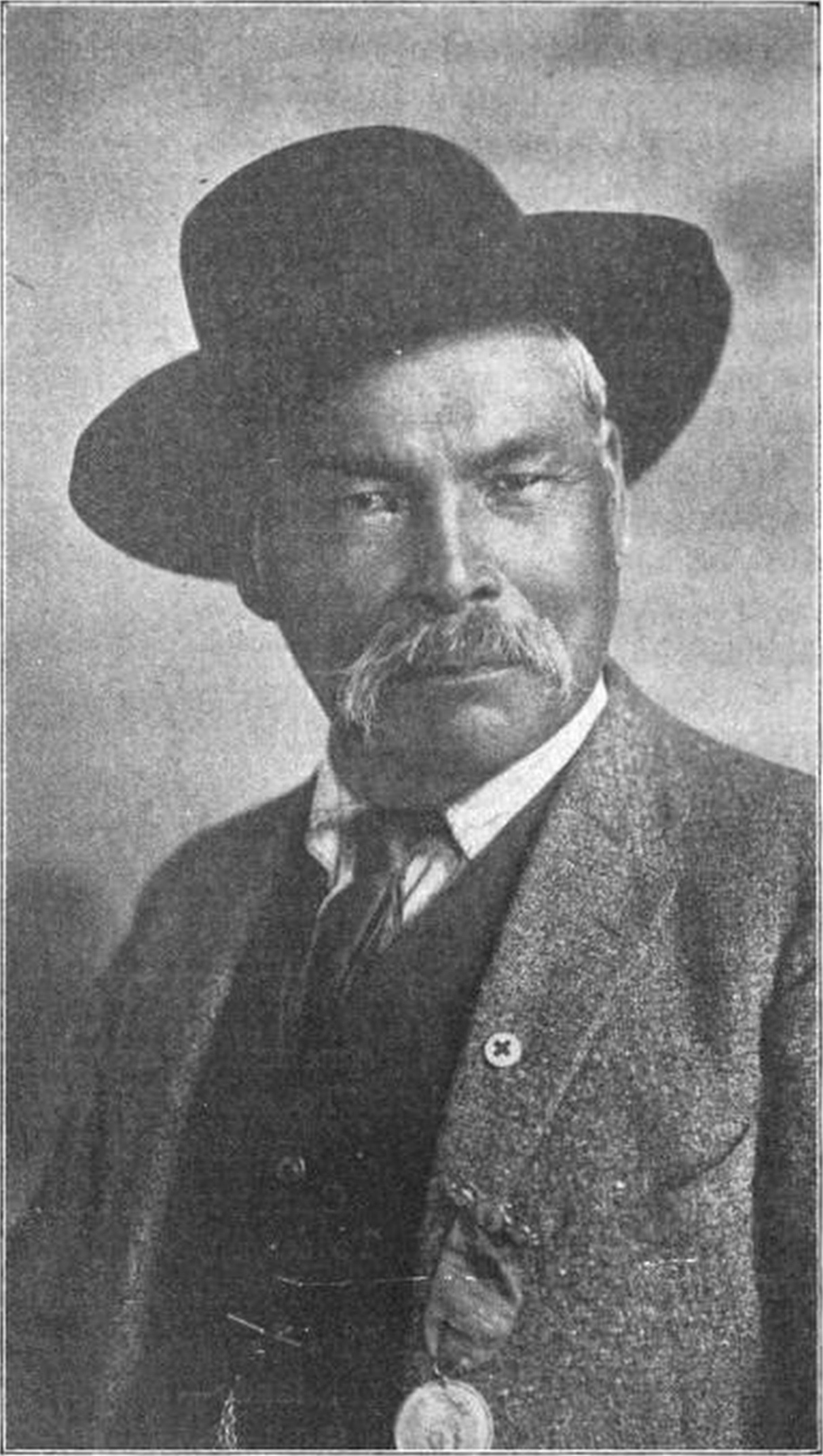 Portrait of Potawatomi Chief Simon Onanguisse Kahquados, 1919, published in American Indian Magazine. Date is approximate.